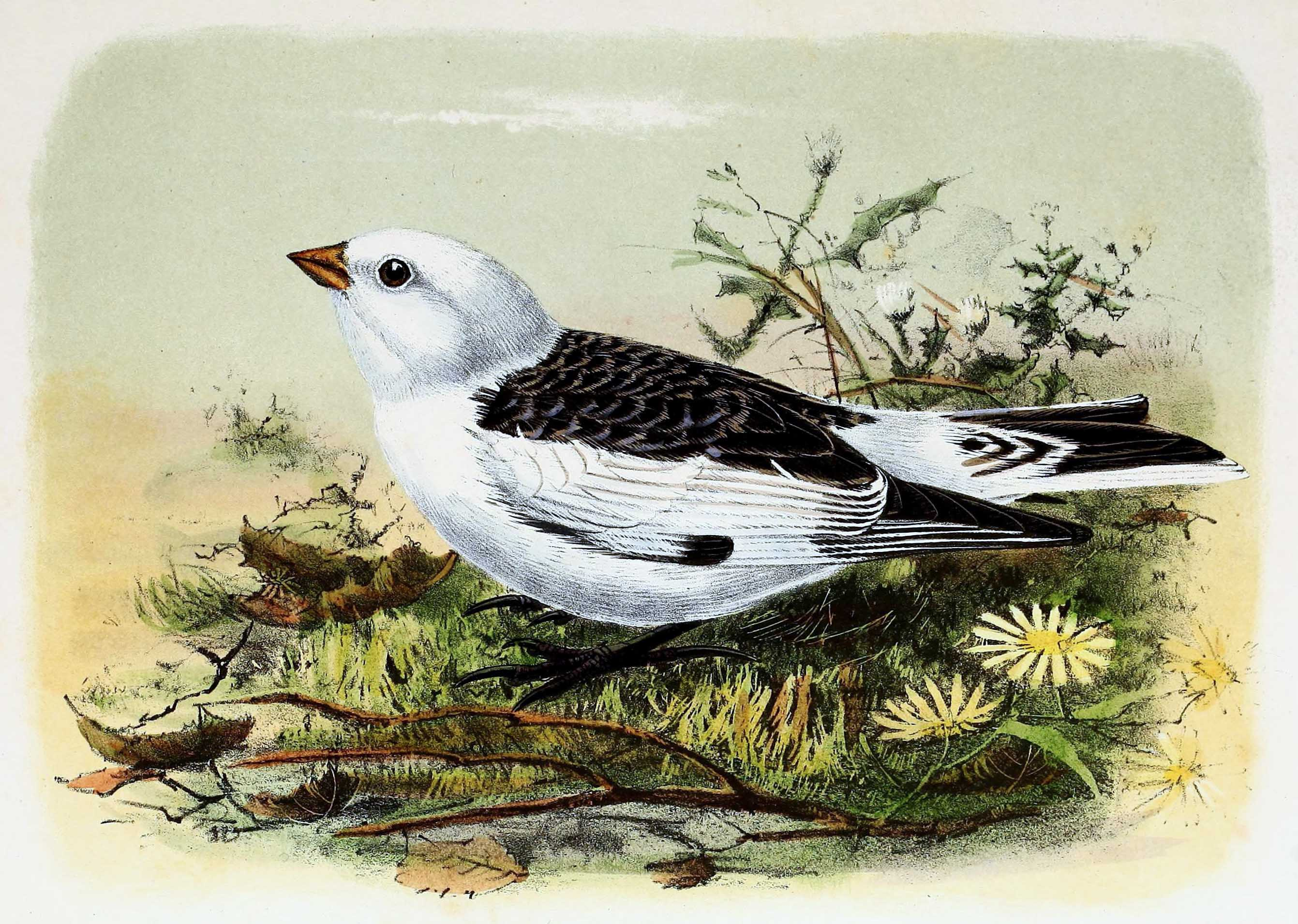 « Emberiza nivalis » = Plectrophenax nivalis (Snow bunting)